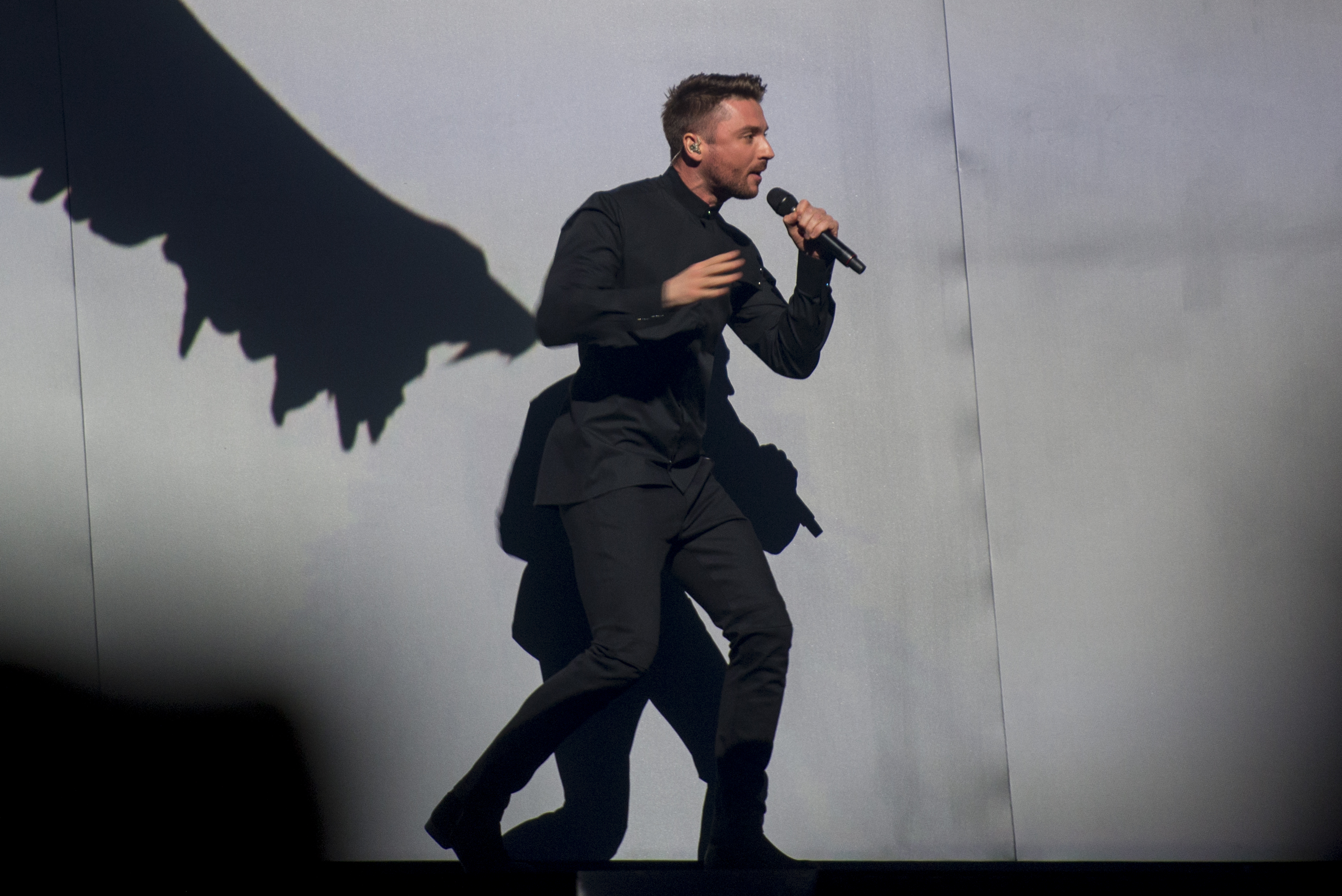 Sergey Lazarev representing Russia with the song "You Are the Only One" during a rehearsal before the first semi final of the Eurovision Song Contest 2016 in Stockholm. (Help translate this text)